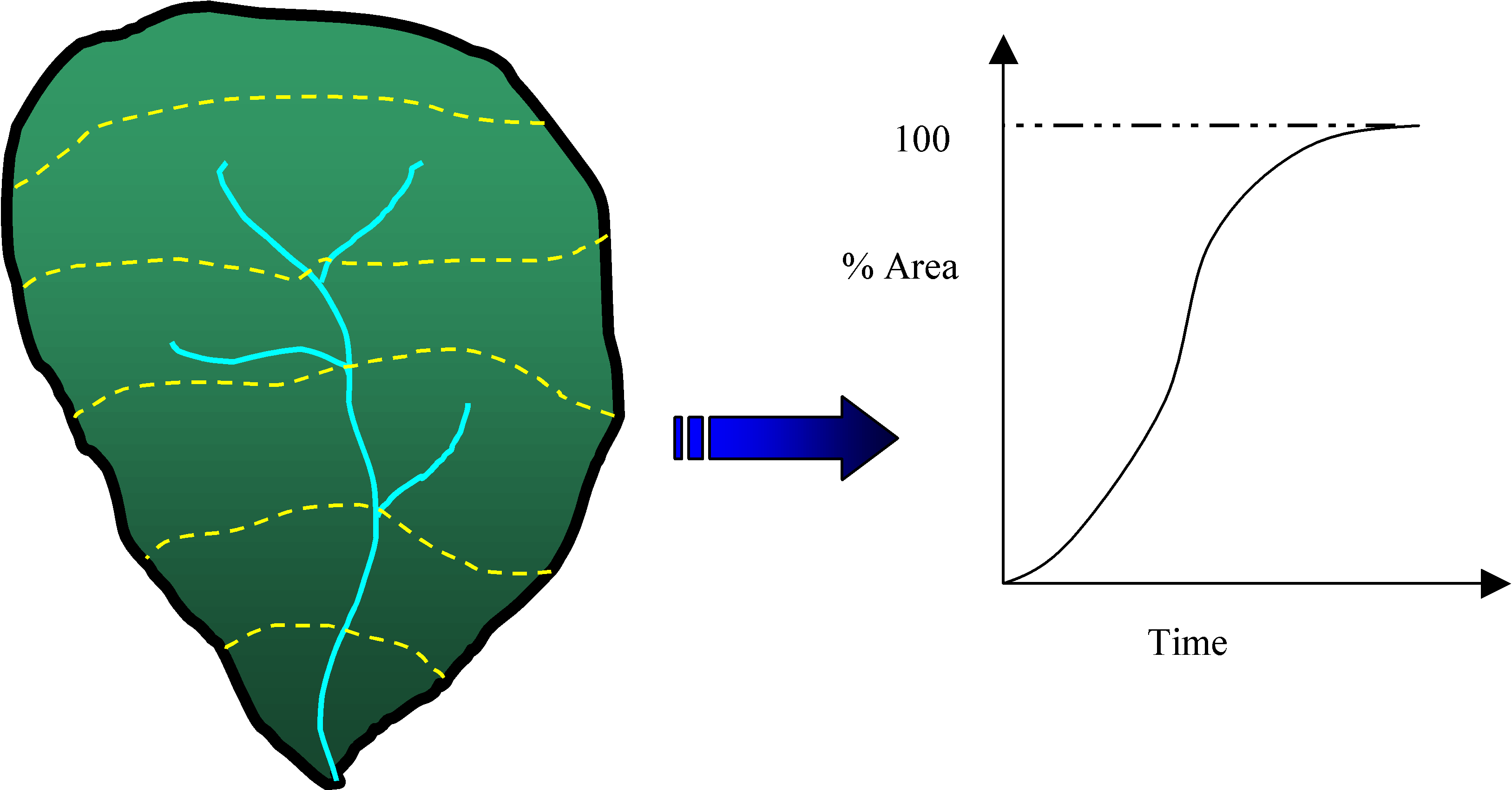 Diagram detailing the concept of time of concentration